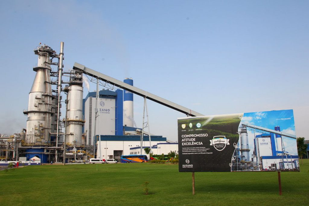 Imperatriz MA